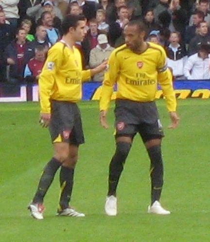 Robin van Persie with Thierry Henry